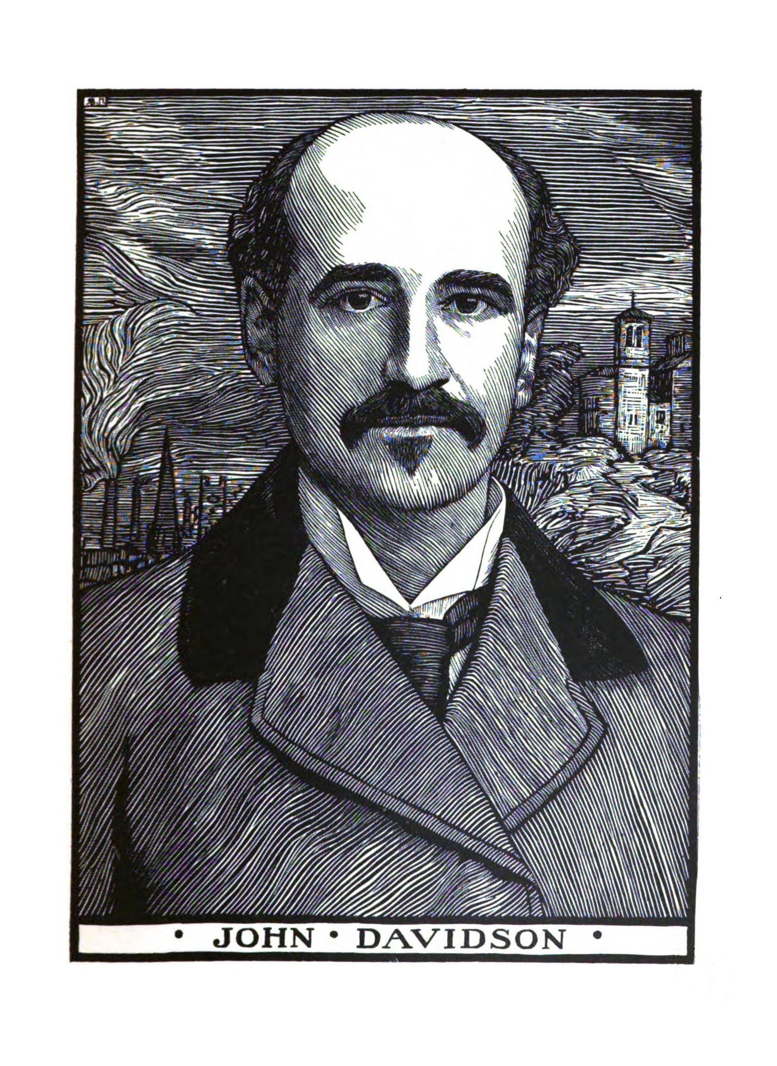 Woodcut of Scots poet, John Davidson, 1902